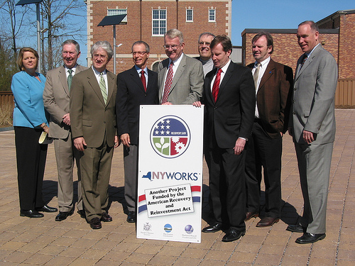 The Lindenhurst Memorial Library is governed by a five-member Board of Trustees, appointed by the Lindenhurst School District residents.